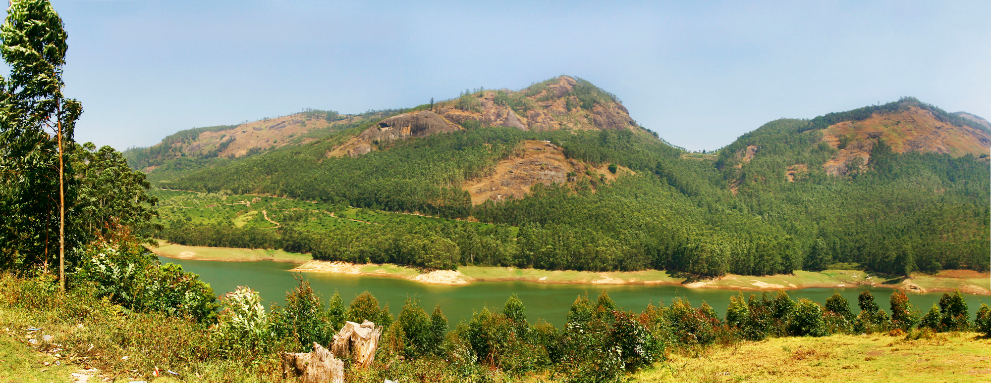 View across the Mattupetty reservoir